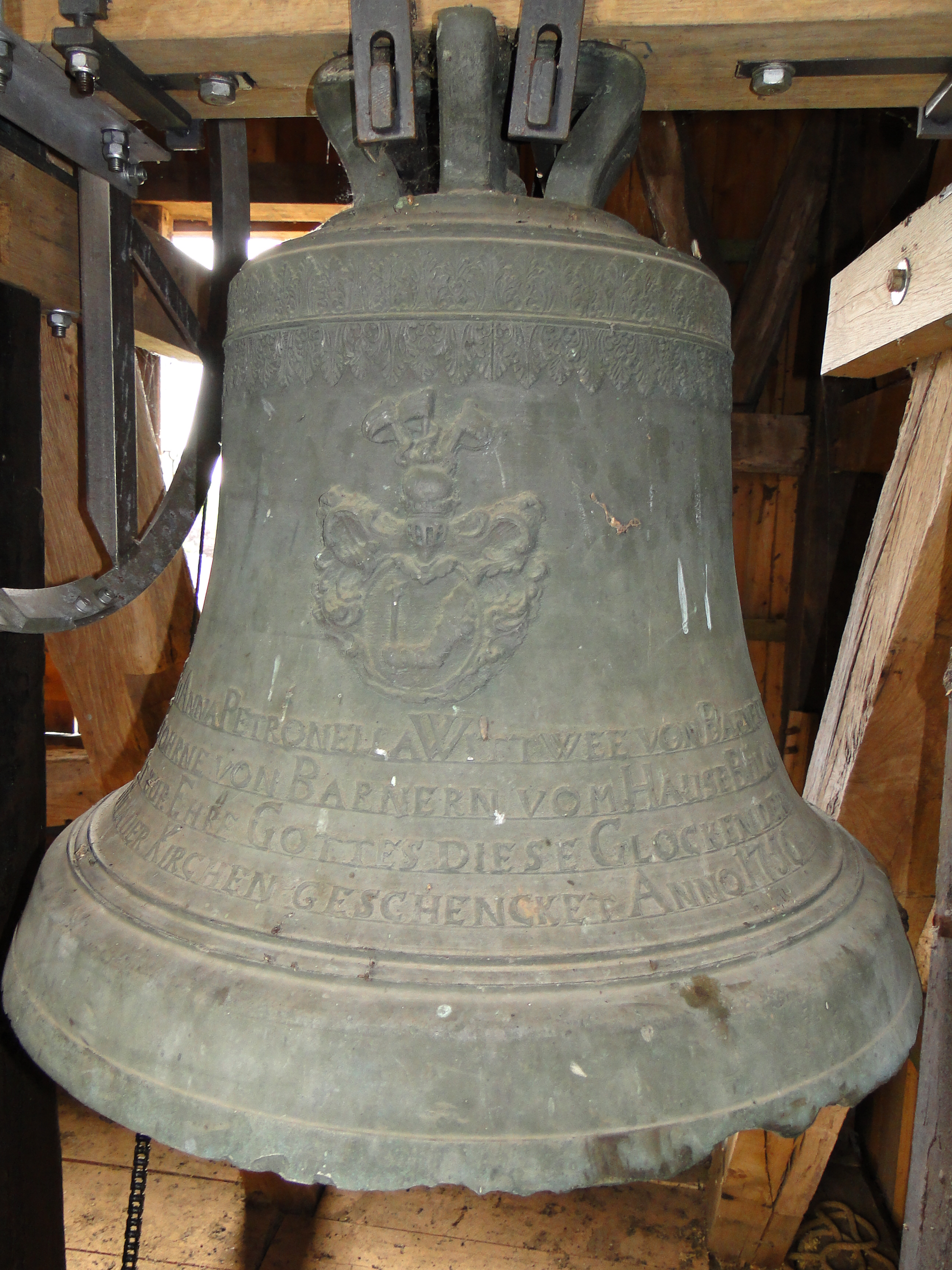 Church in Bülow, district Ludwigslust-Parchim, Mecklenburg-Vorpommern, Germany